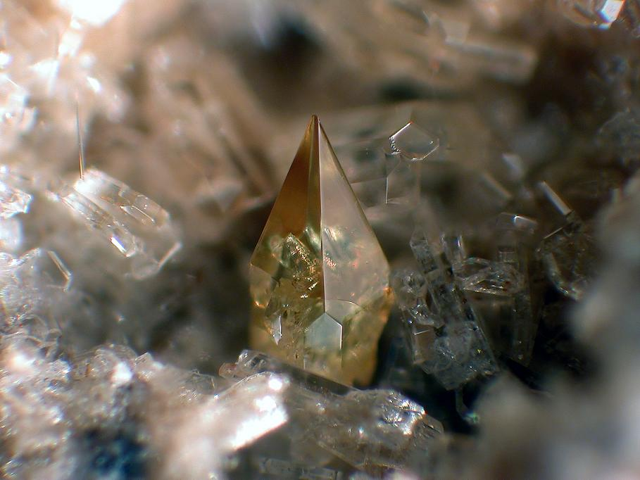 Titanite crystal 0.6 mm high - Locality: Wannenköpfe, Ochtendung, Eifel region, Germany